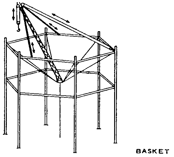 A "basket derrick" is a derrick without a boom, similar to a gin pole, with its base supported by ropes attached to corner posts or other parts of the structure. The base is at a lower elevation than its supports. The location of the base of a basket derrick can be changed by varying the length of the rope supports. The top of the pole is secured with multiple reeved guys to position the top of the pole to the desired location by varying the length of the upper guy lines. The load is raised and lowered by ropes through a sheave or block secured to the top of the pole.